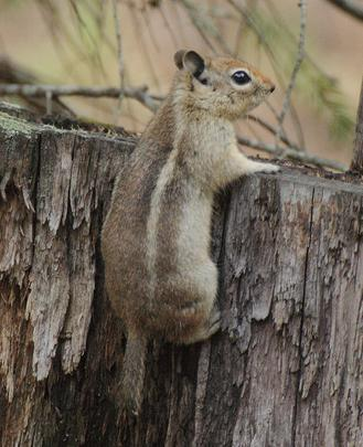 Callospermophilus madrensis Tutuaca, Chihuahua